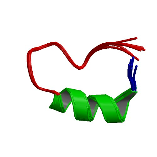 DNA polymerase alpha subunit